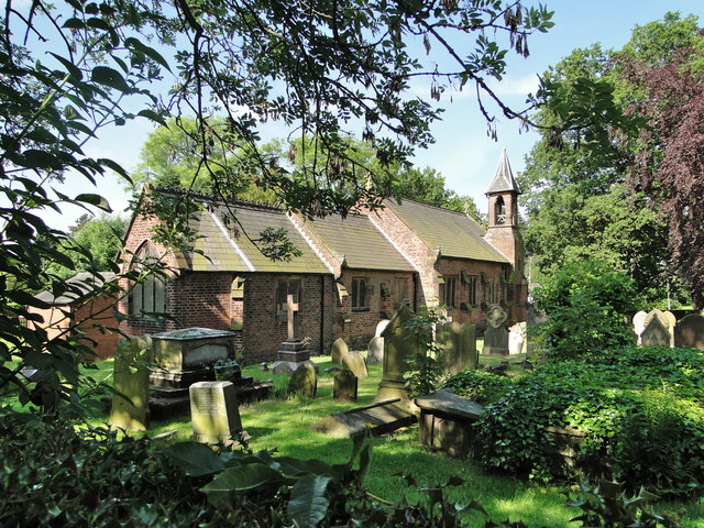 Photograph of St Luke's Church, Whitley